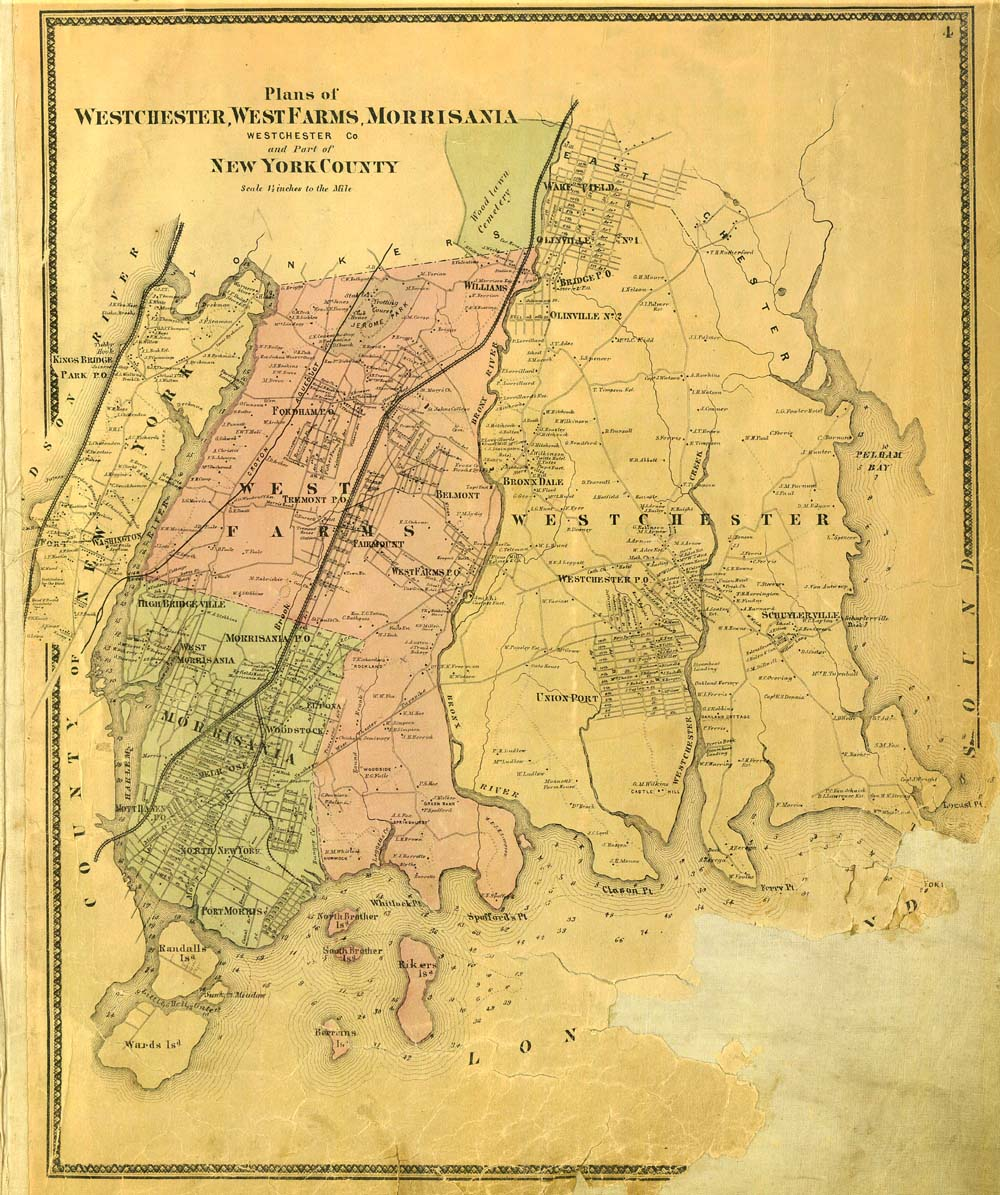 "Westchester, West Farms, and Morrisania" from the Atlas of New York and Vicinity